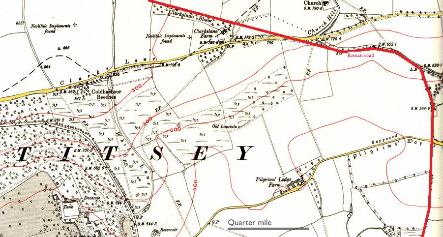 Route of the London to Lewes Way Roman road on the scarp slope of the North Downs at Titsey, Surrey, England.